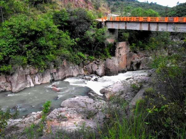 Rio Sapo